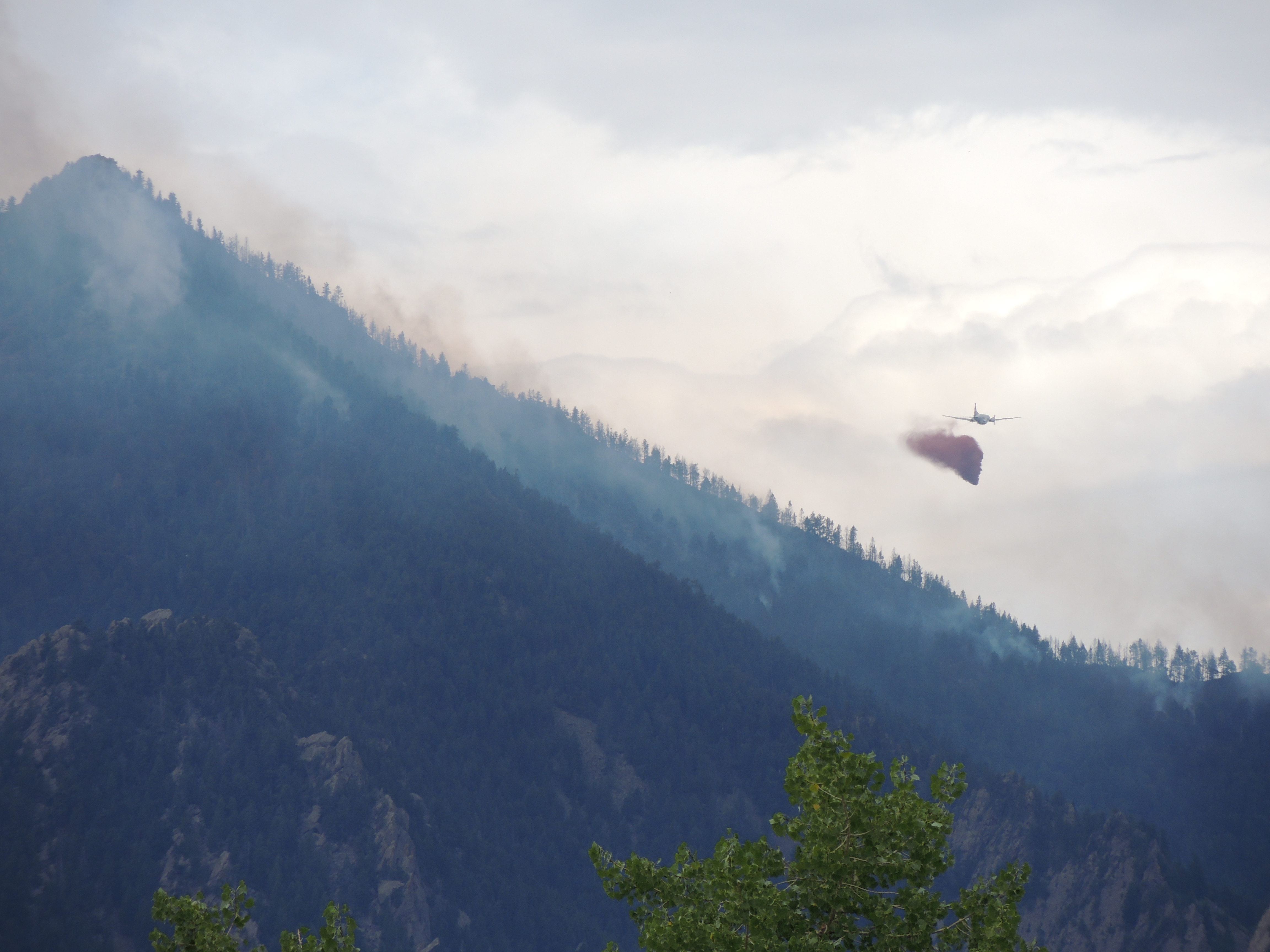 A firefighting airplane dropping fire retardant on the Flagstaff Fire, June 27, 2012.